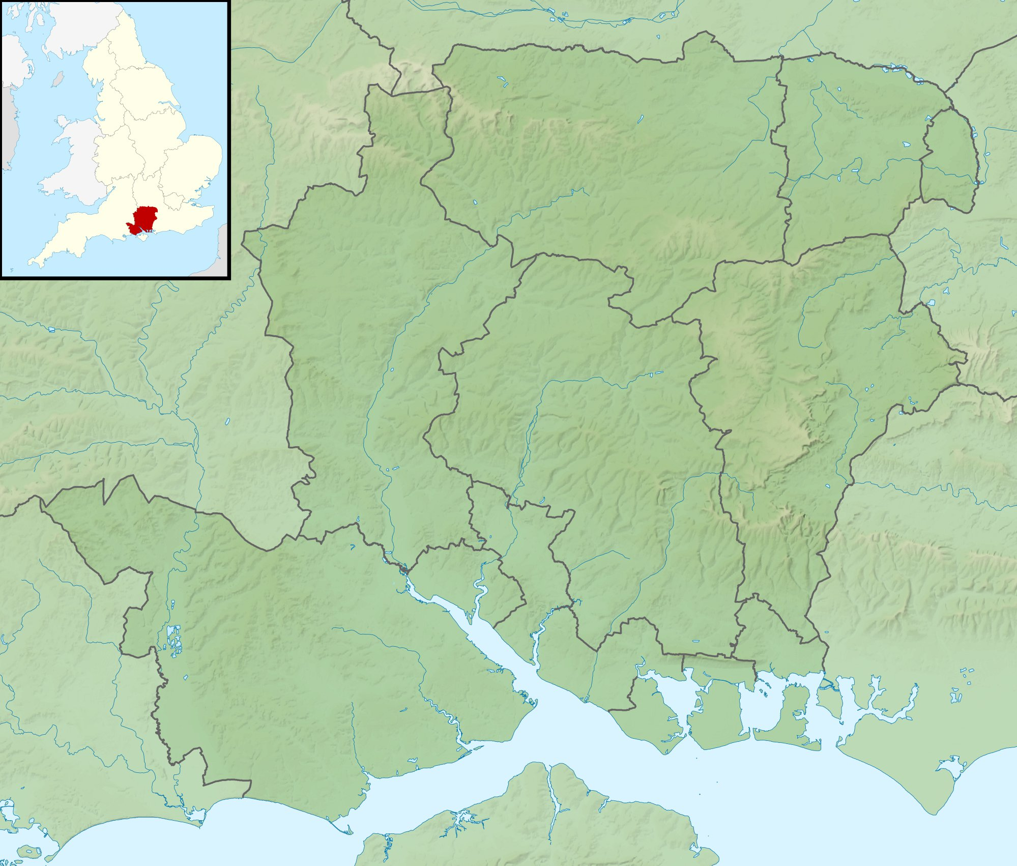 Relief map of Hampshire, UK. Equirectangular map projection on WGS 84 datum, with N/S stretched 155% Geographic limits: West: 2.01W East: 0.68W North: 51.41N South: 50.68N